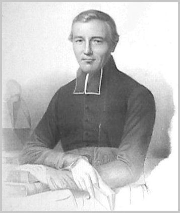 Andreas Gau